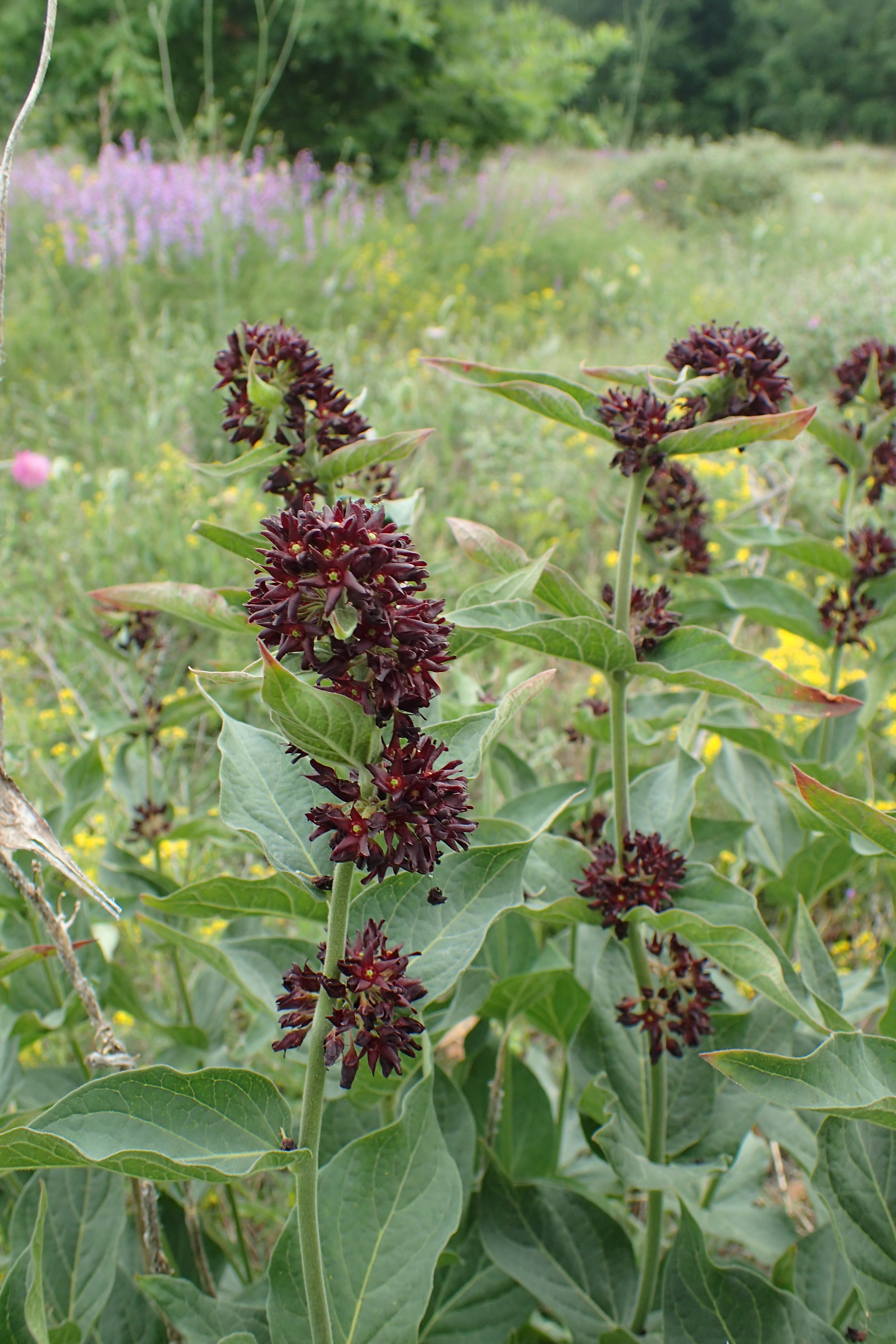 Vincetoxicum speciosum in Balkan Botanic Garden of Kroussia (not labelled, wild growing)